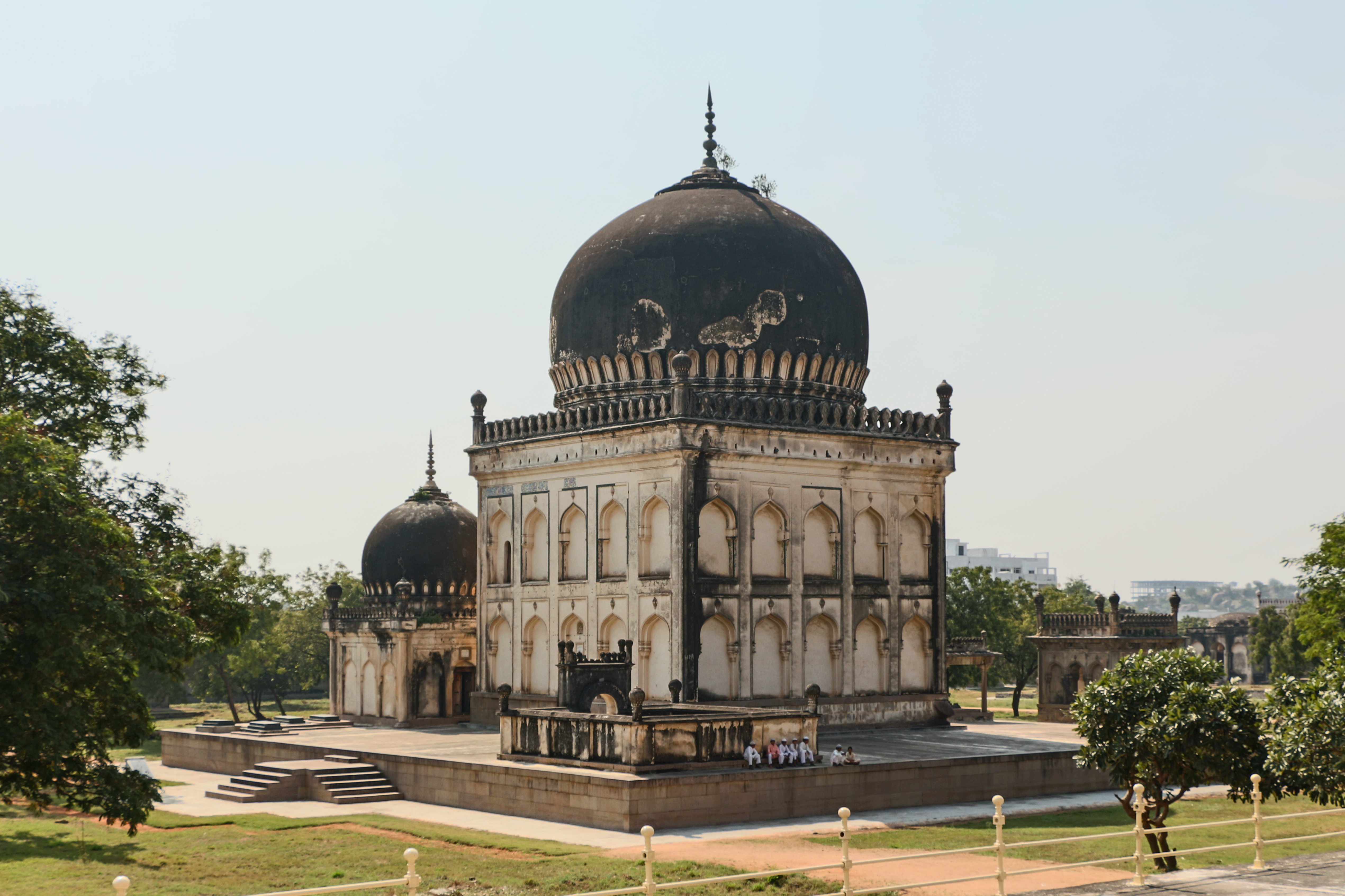 Tomb of Ibrahim Quli Qutb Shah, Hyderabad, India